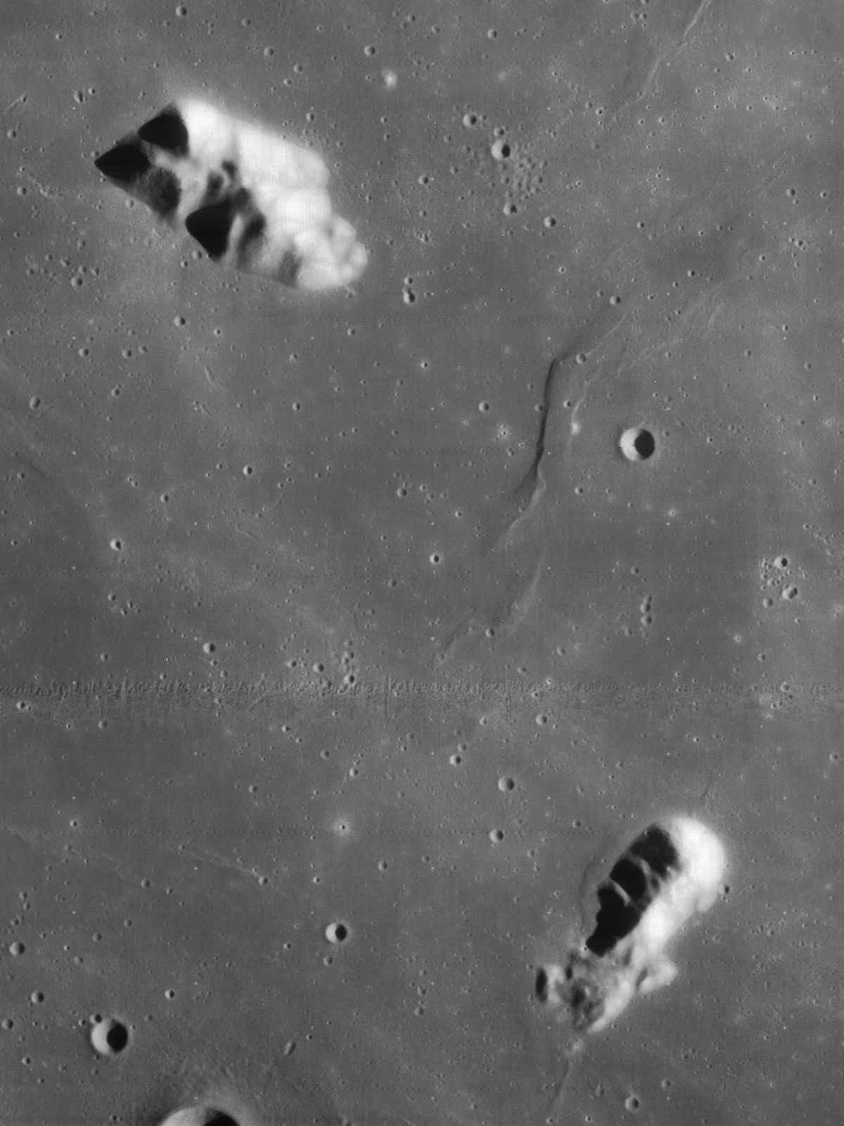 Mons Pico (upper left) and nearby unnamed mountain (lower right), Mare Imbrium, the moon.